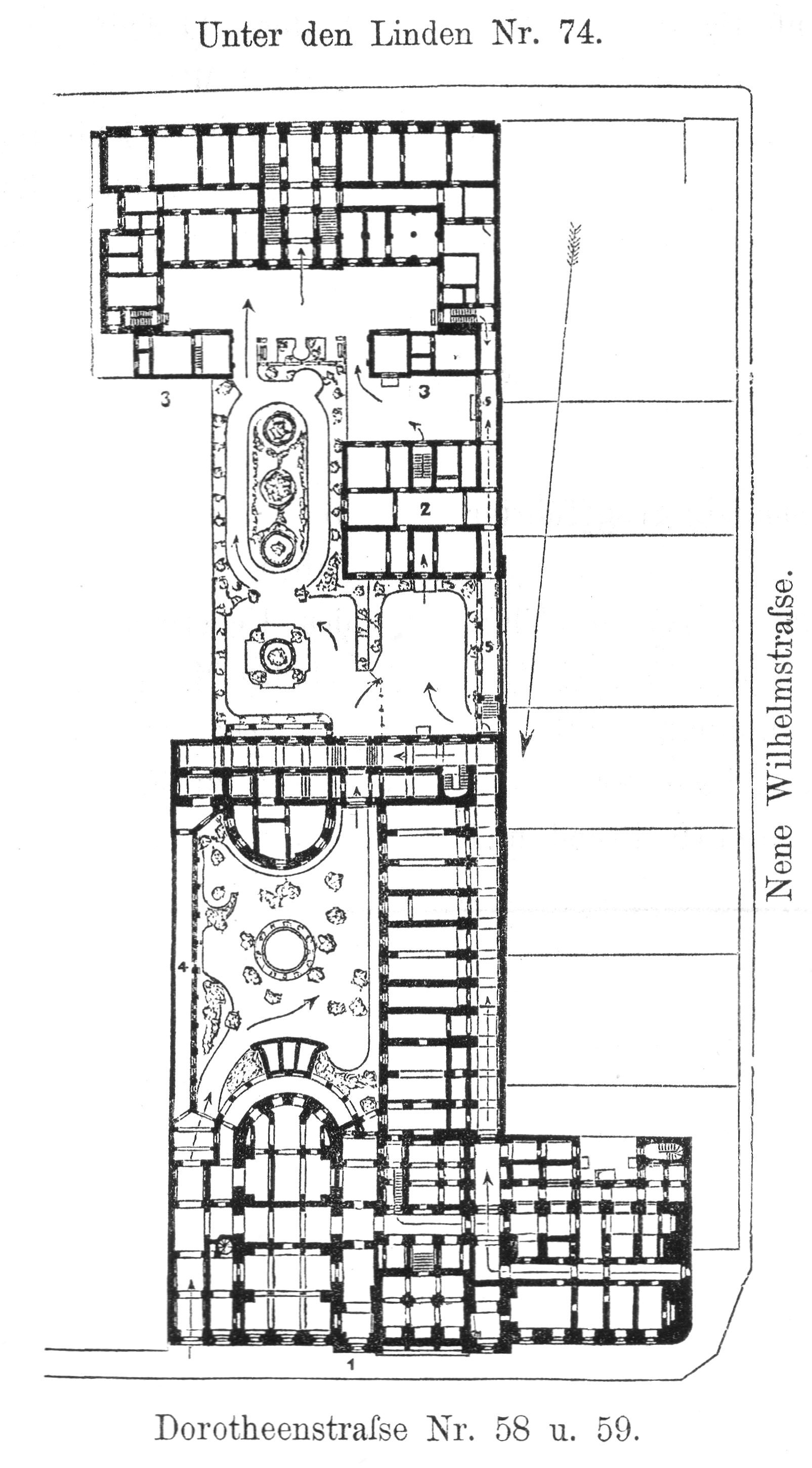 Berlin - Kriegsakademie, situation plan